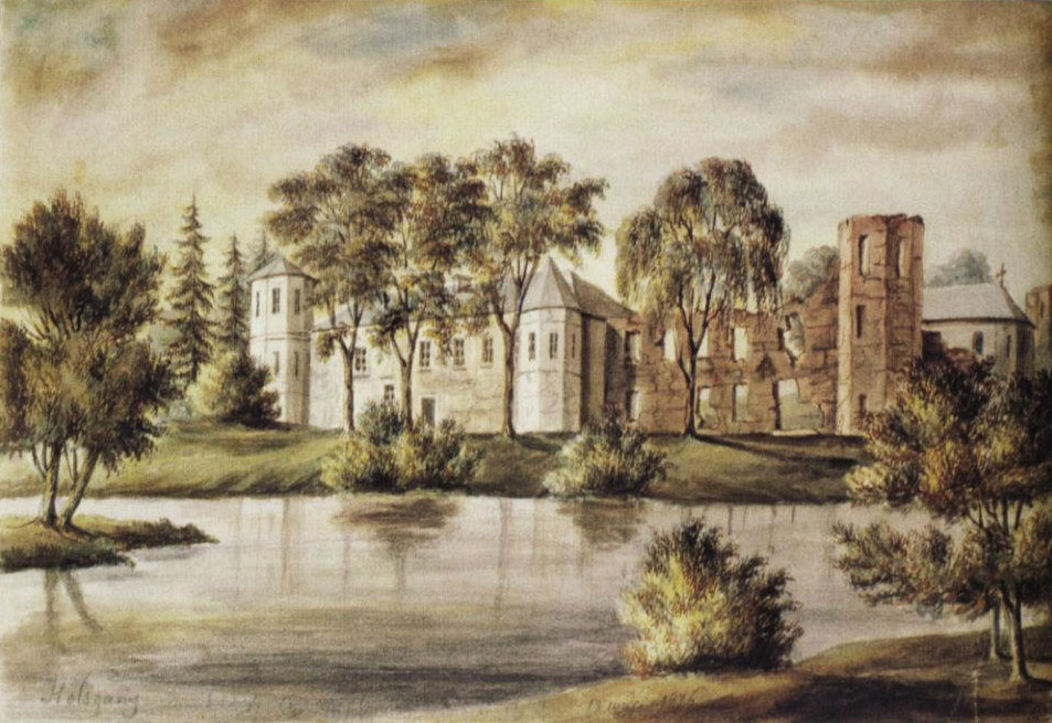 Sapieha Castle in Halšany